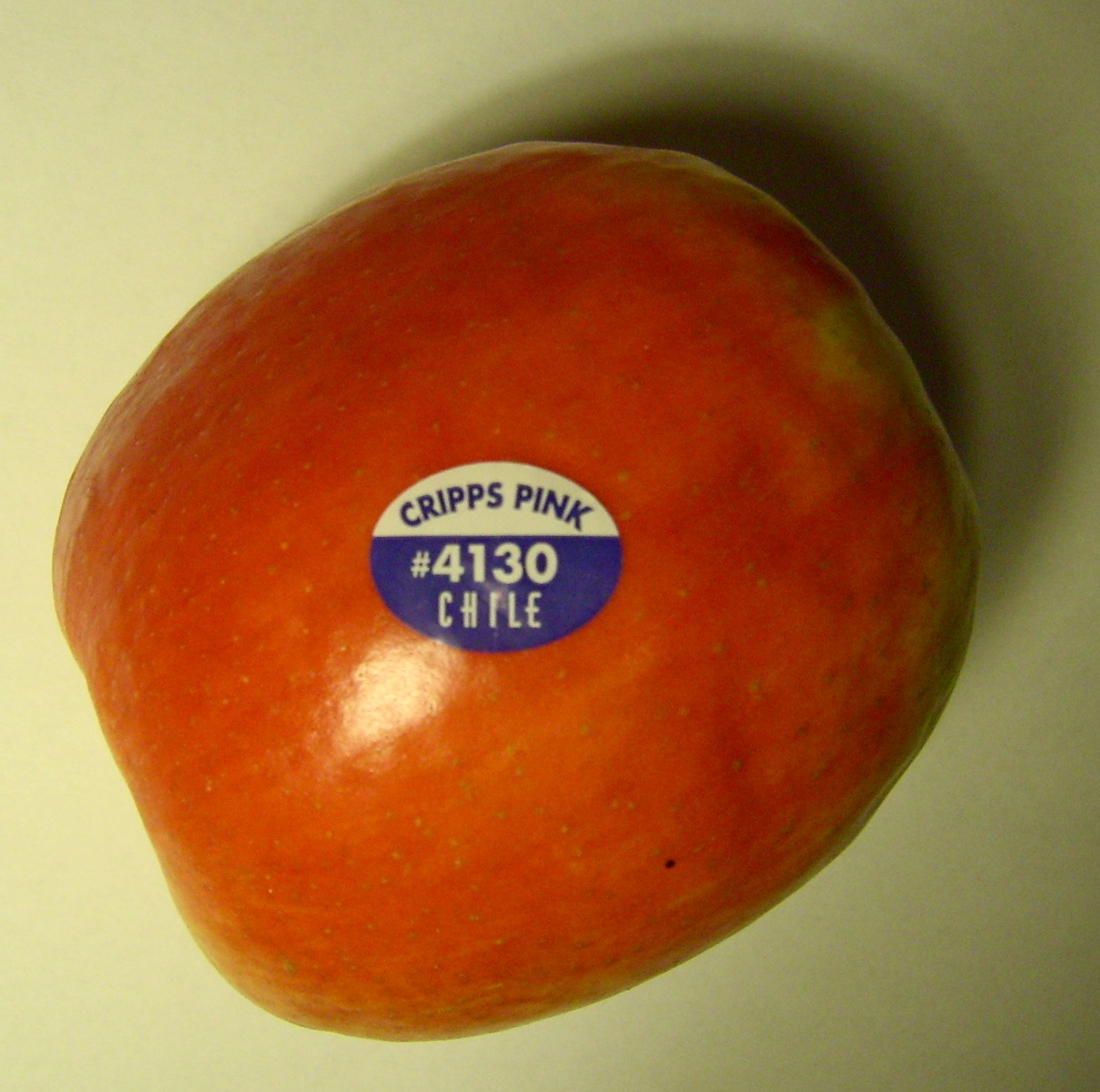 Apple PLU #4130